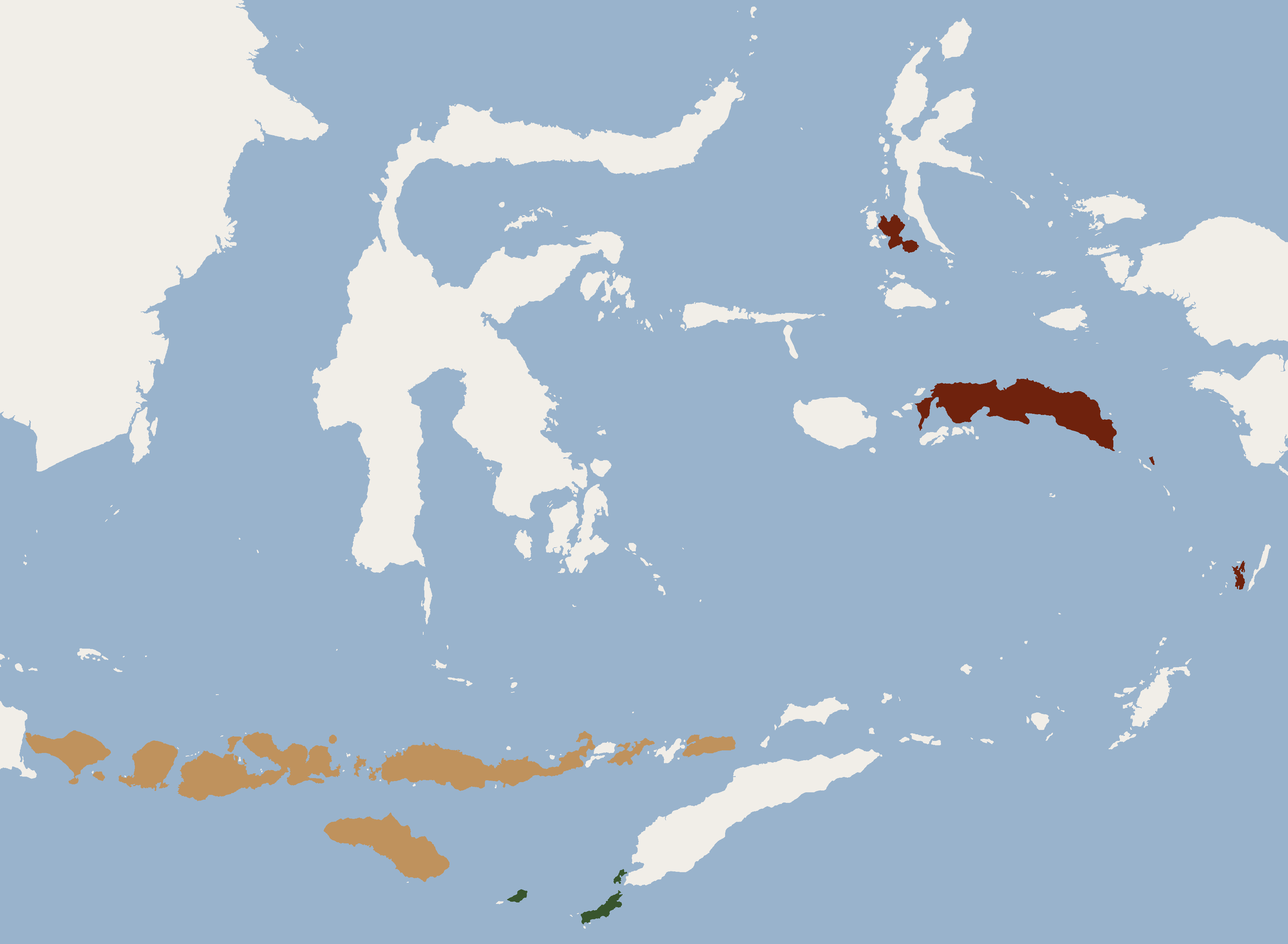 Geographical distribution of Rhinolophus keyensis according to Museum specimens R. k. keyensis R. k. amiri R. k. simplex